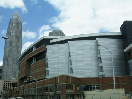 Charlotte Bobcats Arena. Charlotte, NC. TSM. 2006.